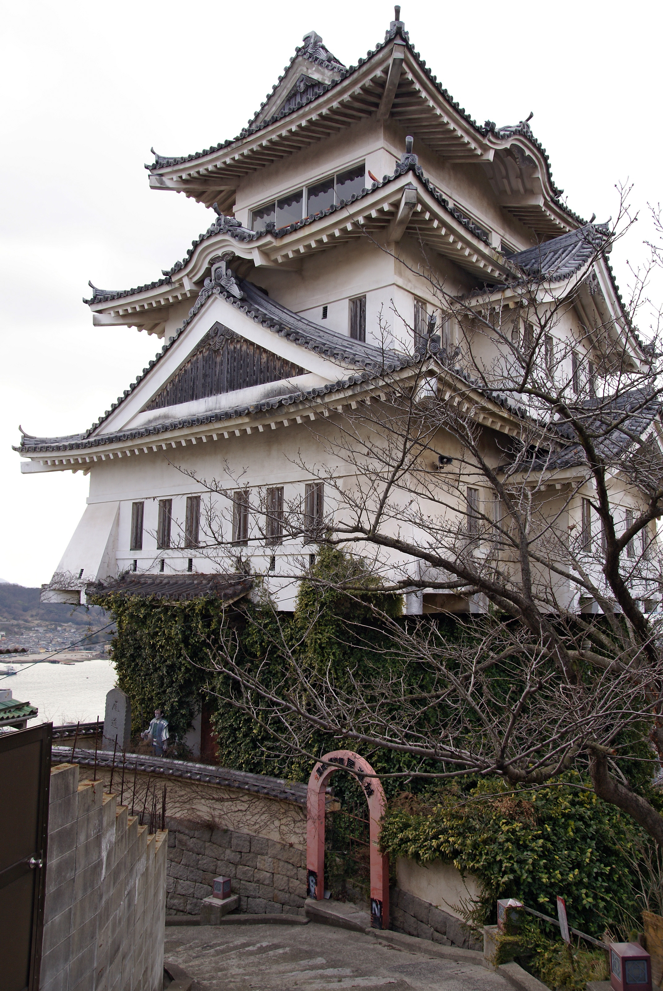 Onomichi Castle in Onomichi, Hiroshima prefecture, Japan